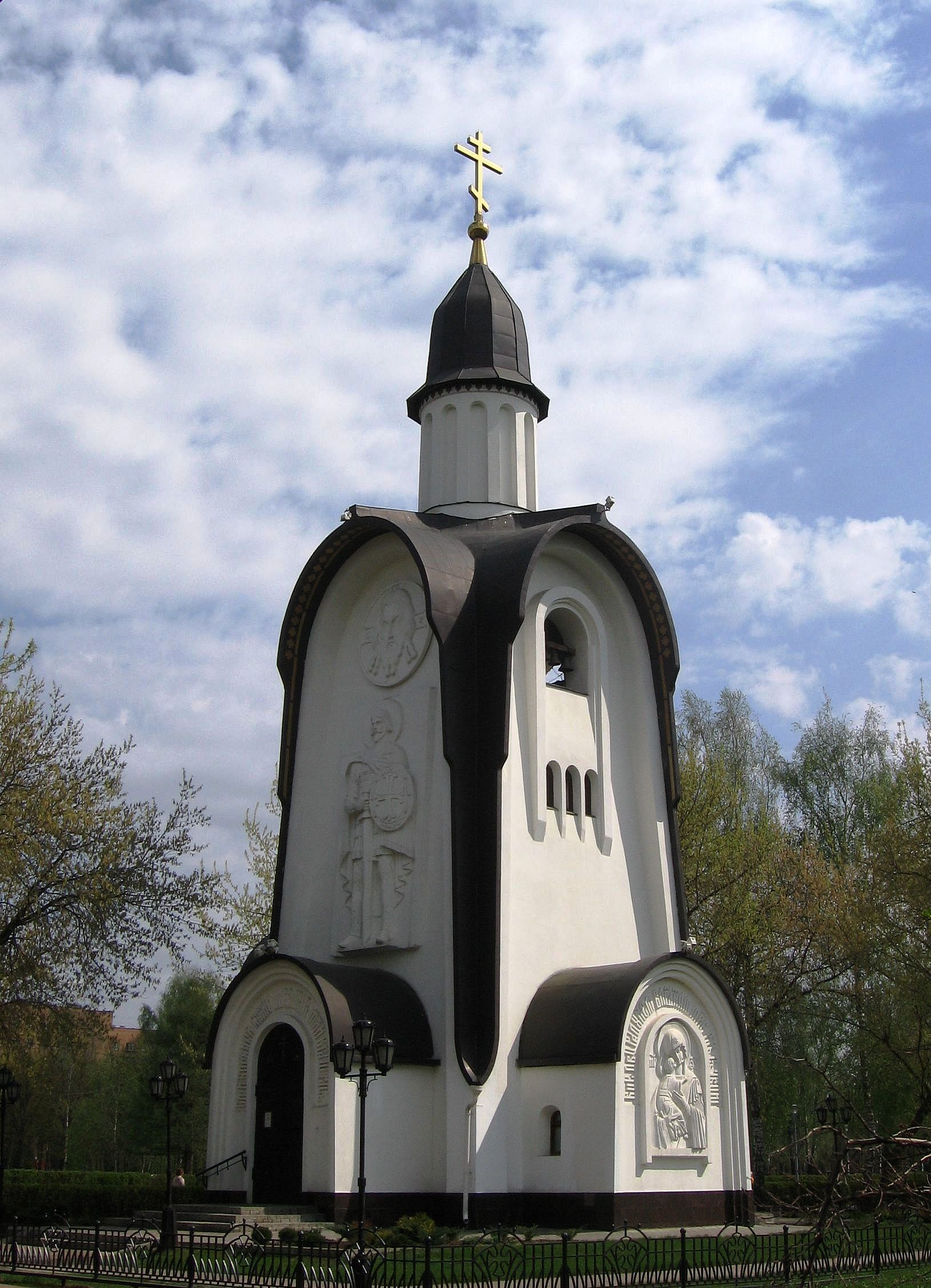 The Memorial Chapel in the name of Saint Alexander Nevsky in Korolyov, Moscow Oblast, Russia. Architects Yuri Alonov and Zoya Osipova. Bas-reliefs by Vyacheslav Klykov. The chapel was founded in 1997 and consecrated in 1999.